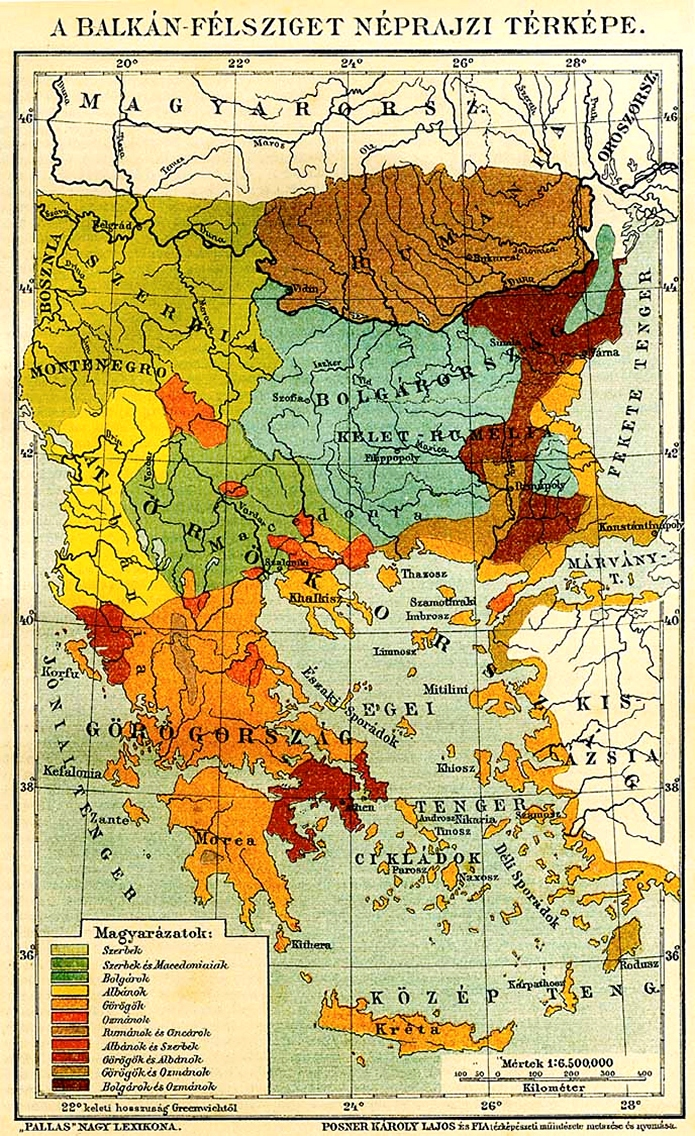 Ethnographic map of Southeastern Europe, in Hungarian, as seen in the Pallas Great Lexicon